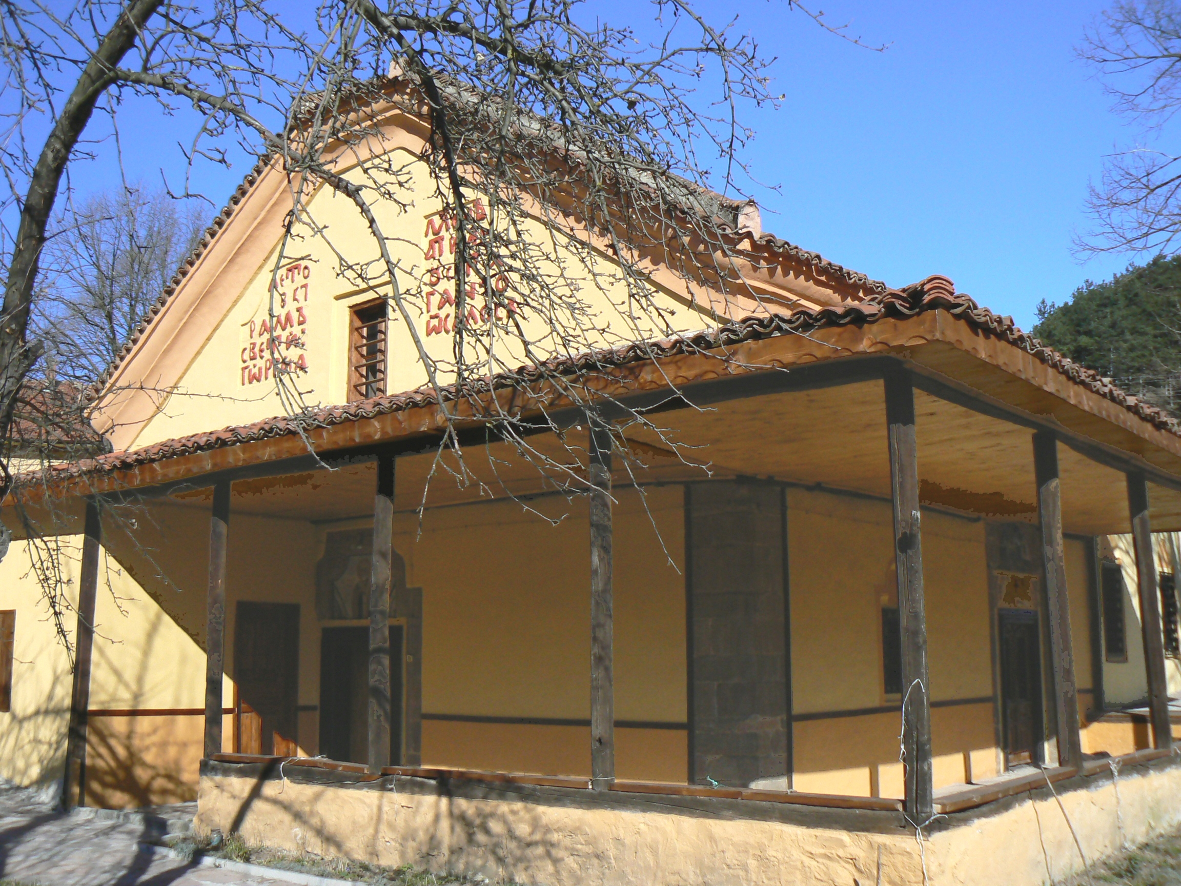 Church "Saint Nikolay" in village Petrich, Bulgaria